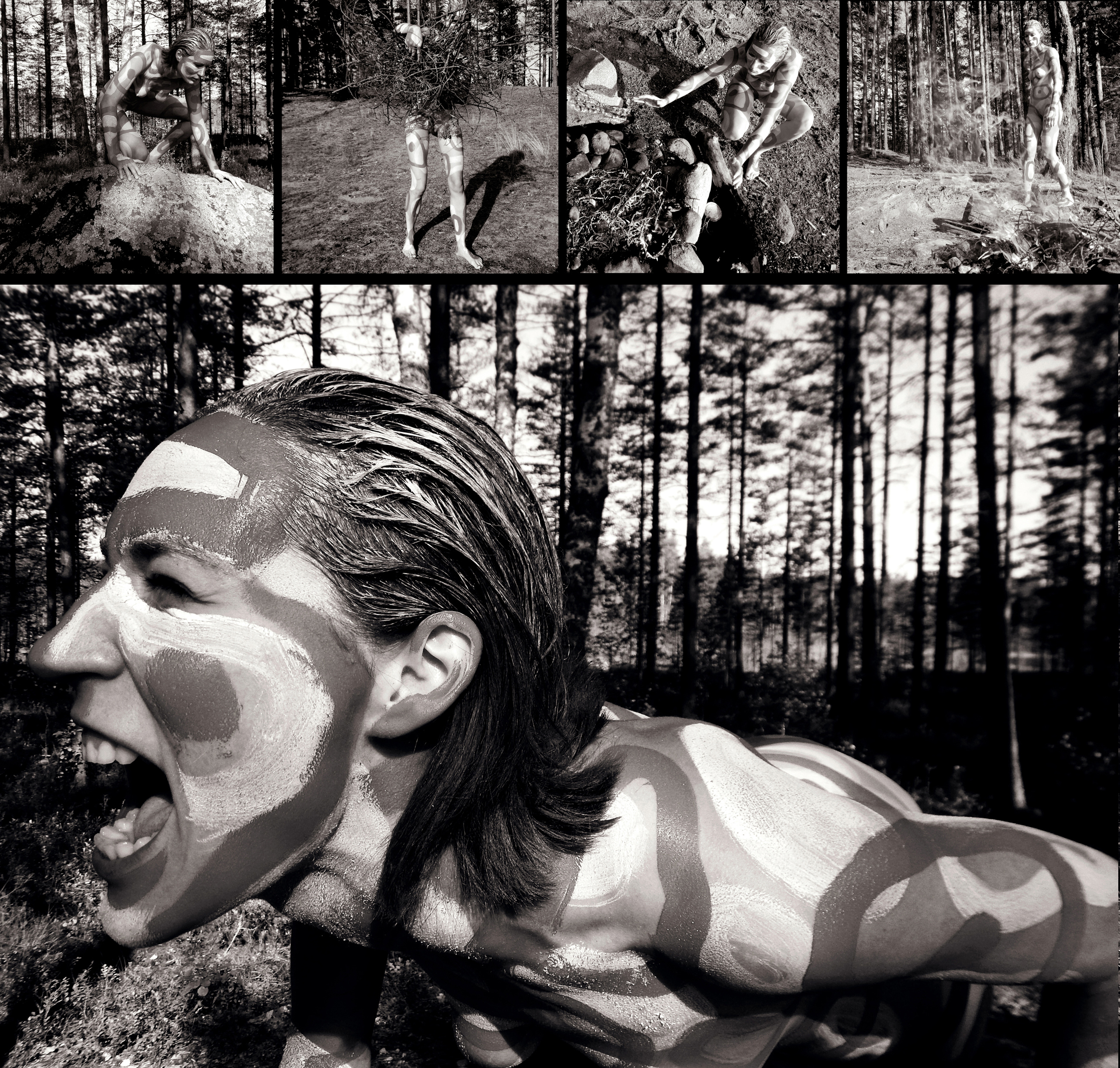 Photograph taken during a performance is a visual document. The Karelian Isthmus. August 10, 2017.